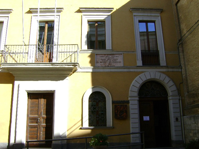 The town hall of Atessa